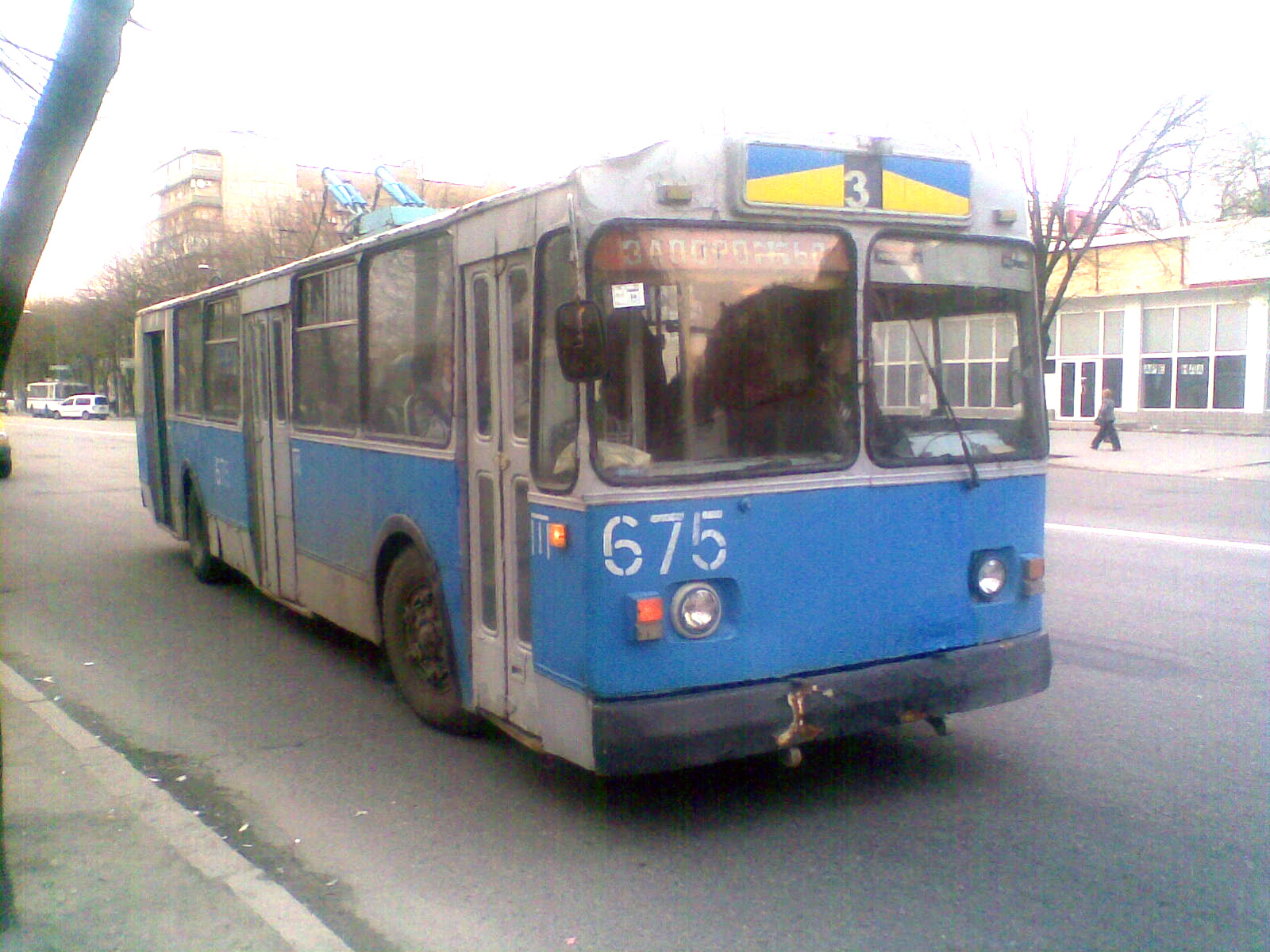 Trolleybuses in Zaporizhzhya